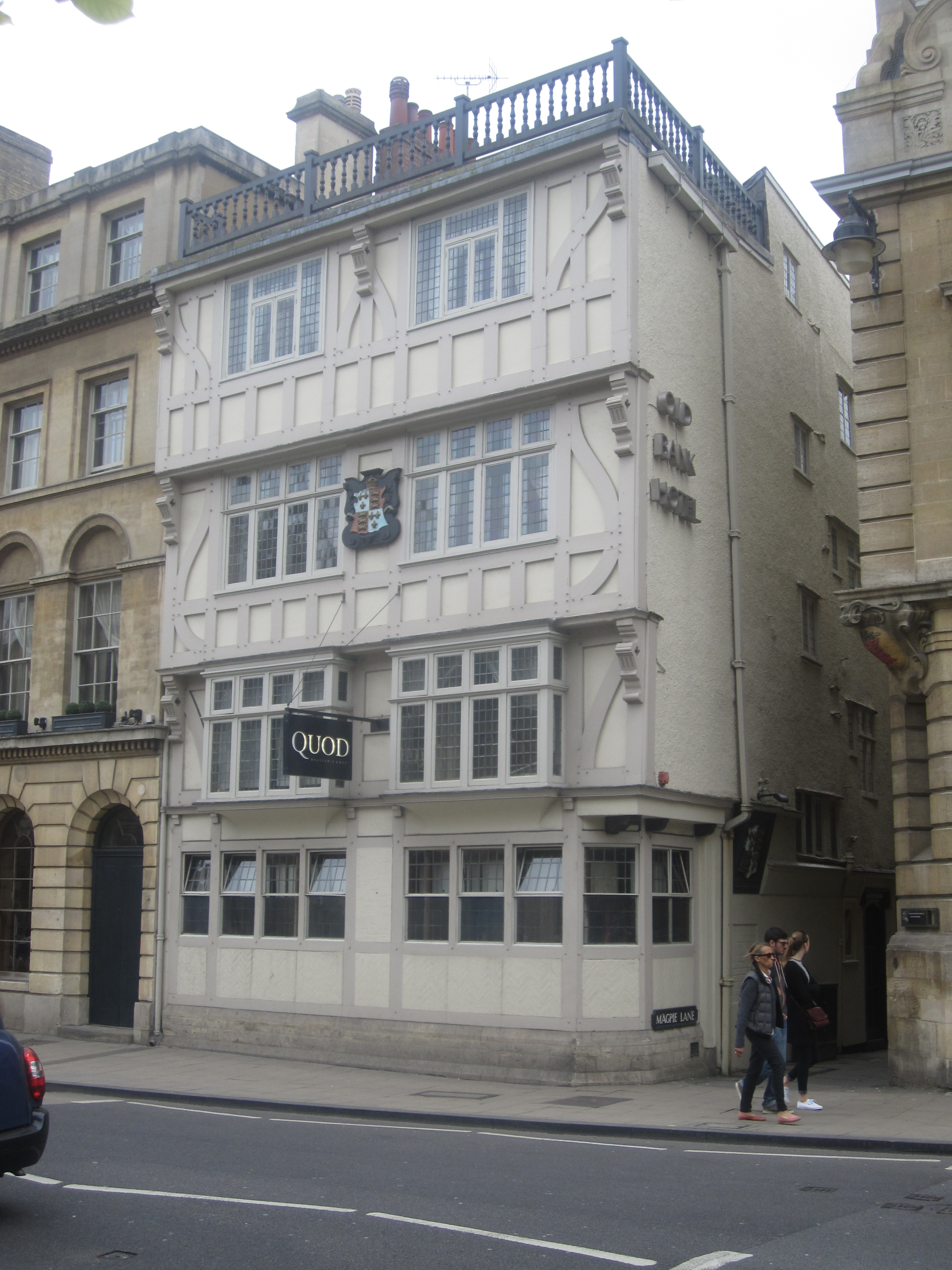 Tudor House, 94 High Street/1 Magpie Lane, Oxford, England, 16th cent., part of The Old Bank Hotel's Quod Brasserie